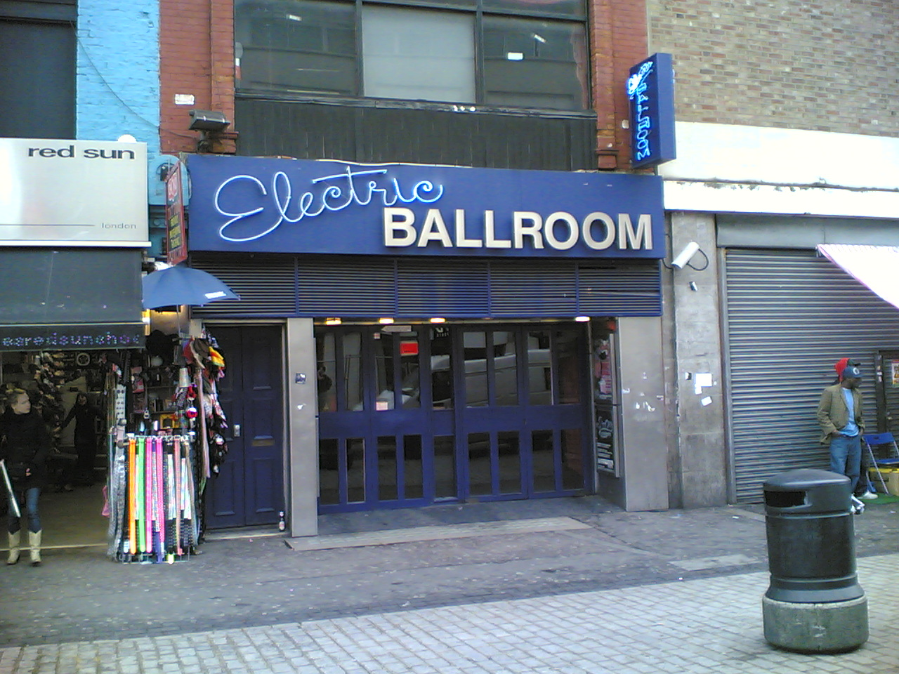 Electric Ballroom in London.